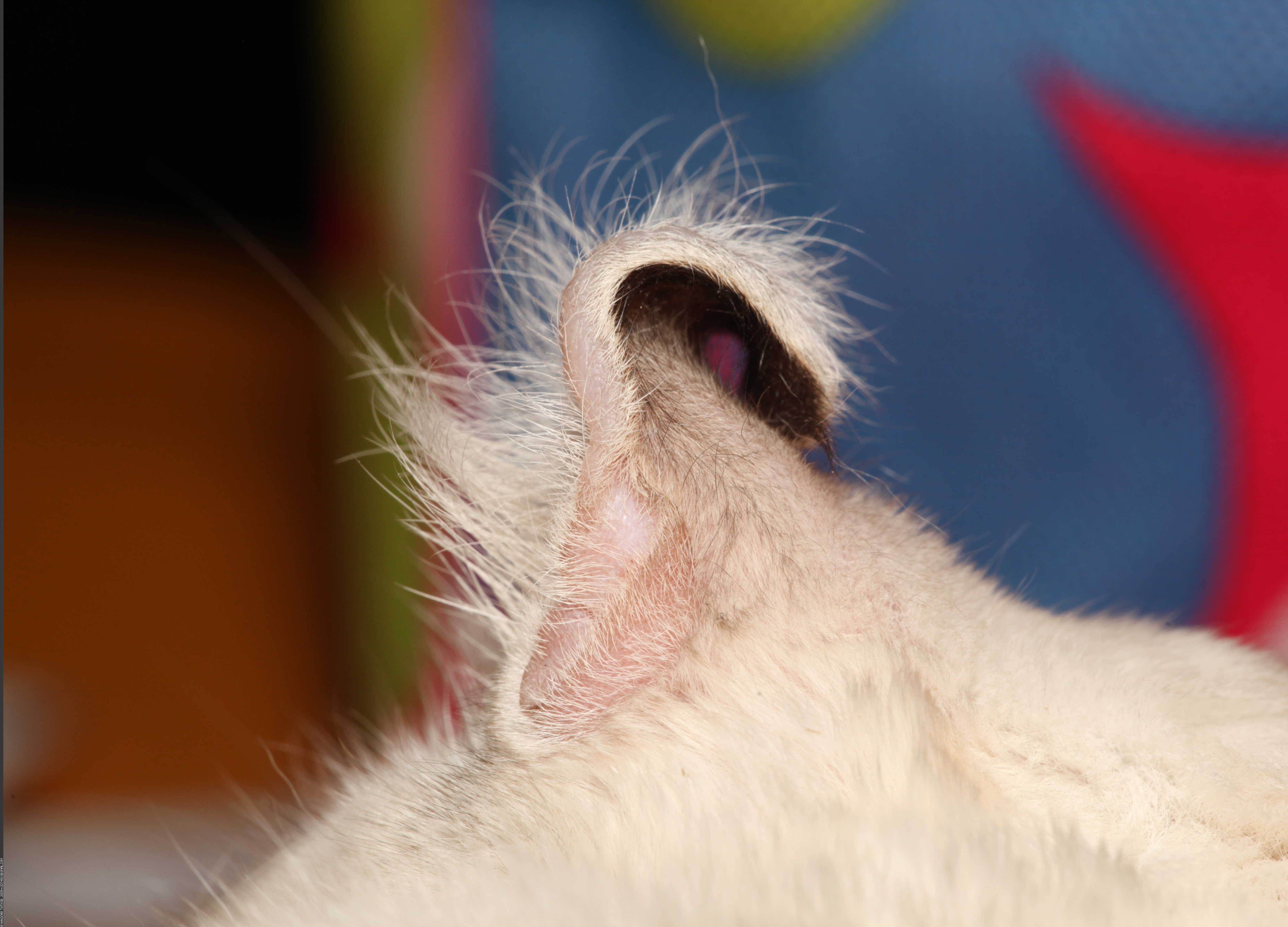 American Curl Longhair. Bad ear example.